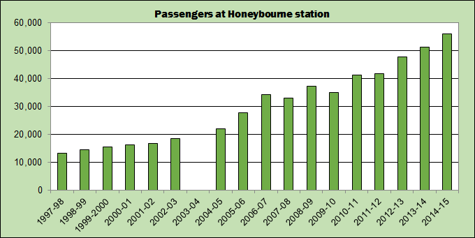 Bar chart of Office for Rail Regulation annual passenger estimates for Honeybourne railway station, Worcestershire, from 1997–98 to 2014–15